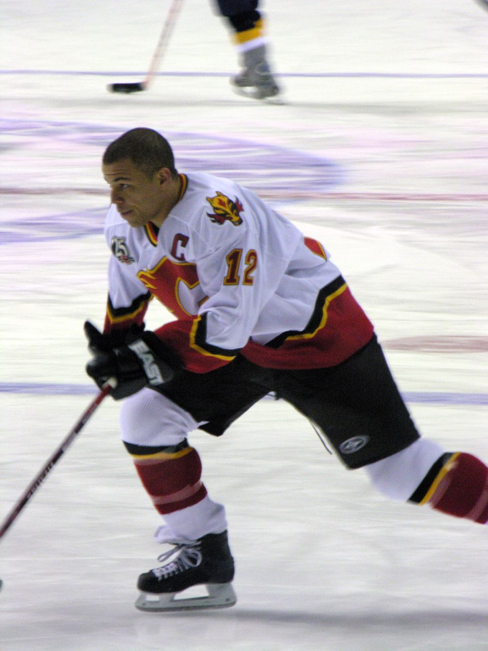 Jarome Iginla of the Calgary Flames warming up before a game.